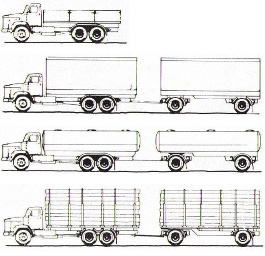 Sisu R-142BPT applications from a brochure.